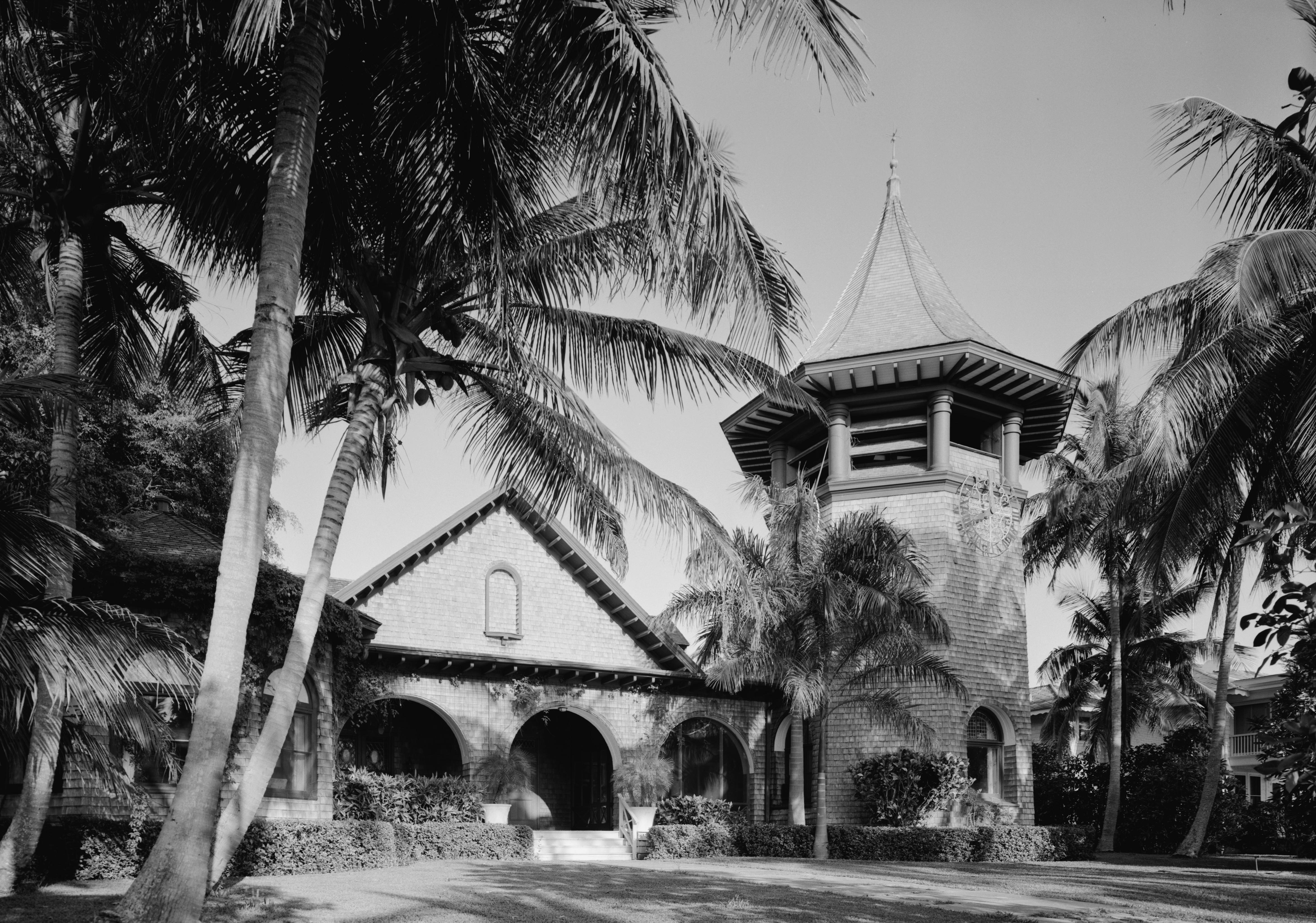 old Bethesda-by-the-Sea Episcopal Church, 549 North Lake Trail, Palm Beach, Florida (1895), John H. Lee, architect.